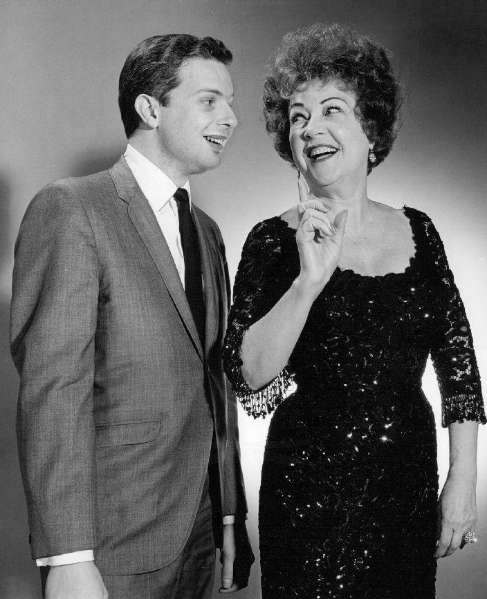 Photo of Peter Nero and Ethel Merman performing on the Bell Telephone Hour.